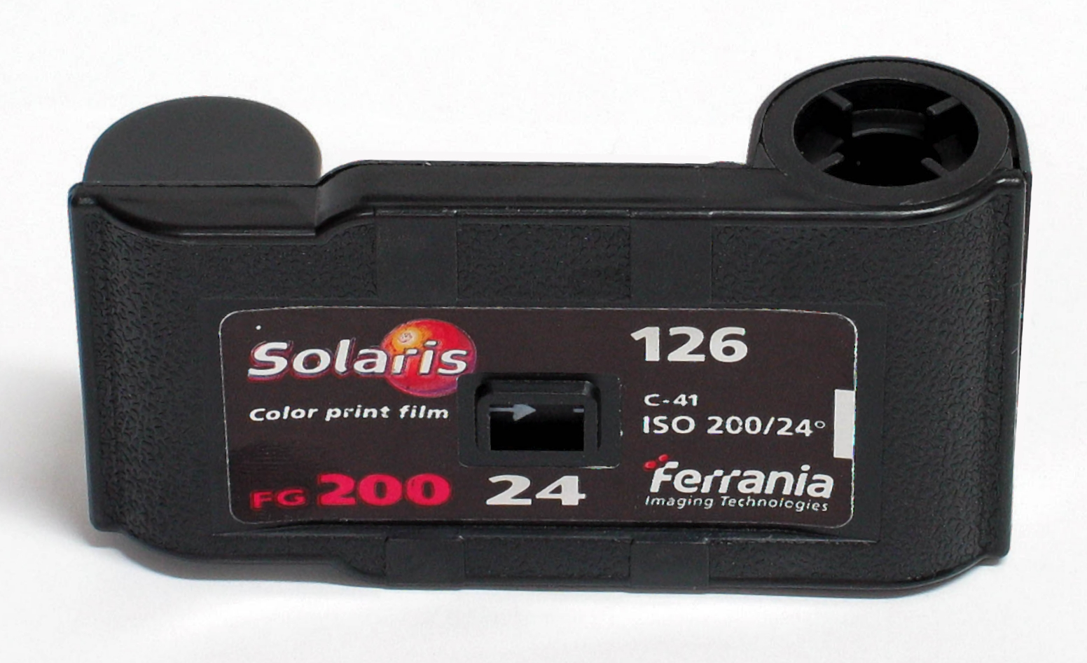 Ferrania Solaris FG200 Instamatic (126) camera film cartridge.